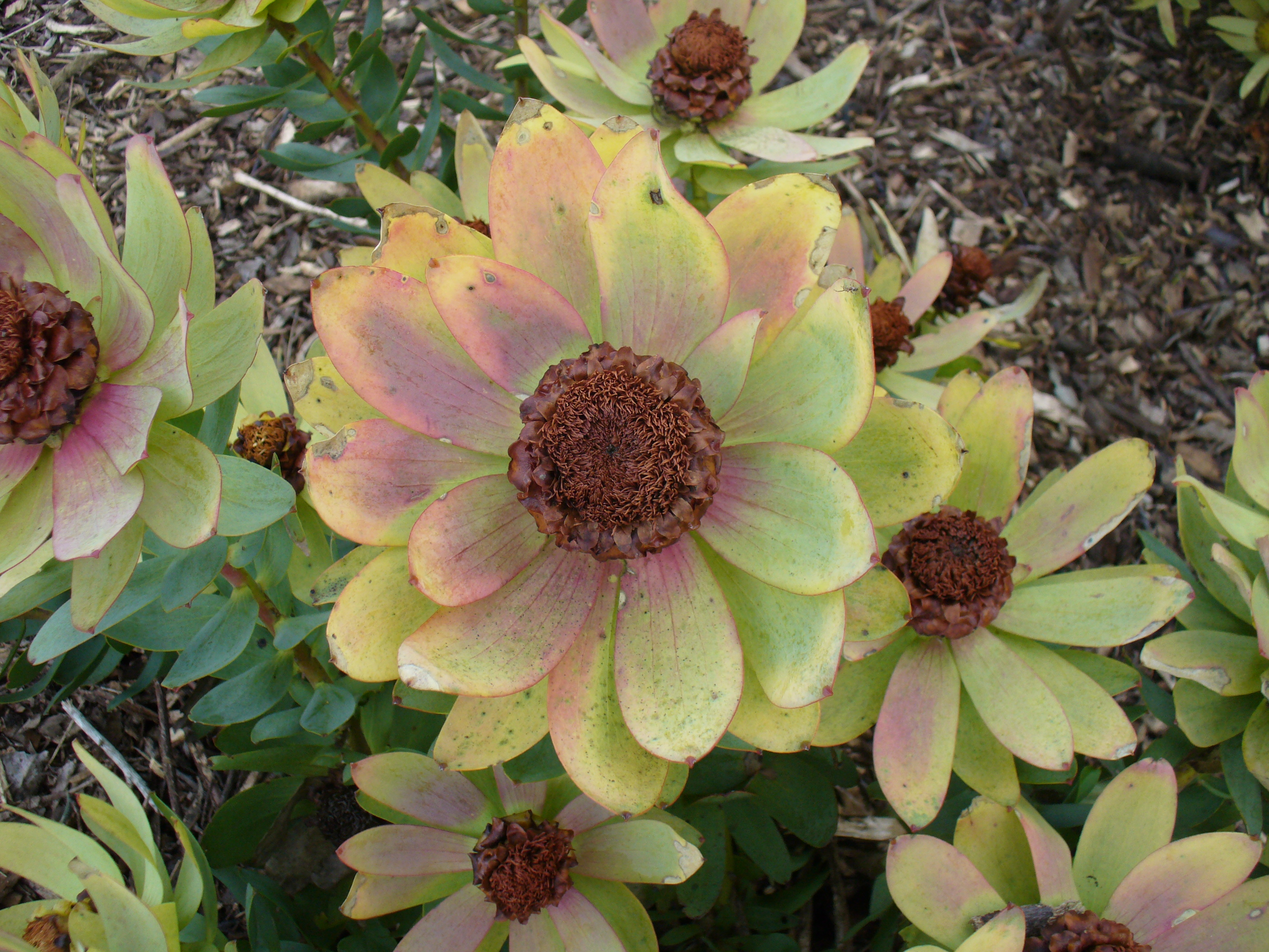 Kirstenbosch Gardens Cape Town South Africa